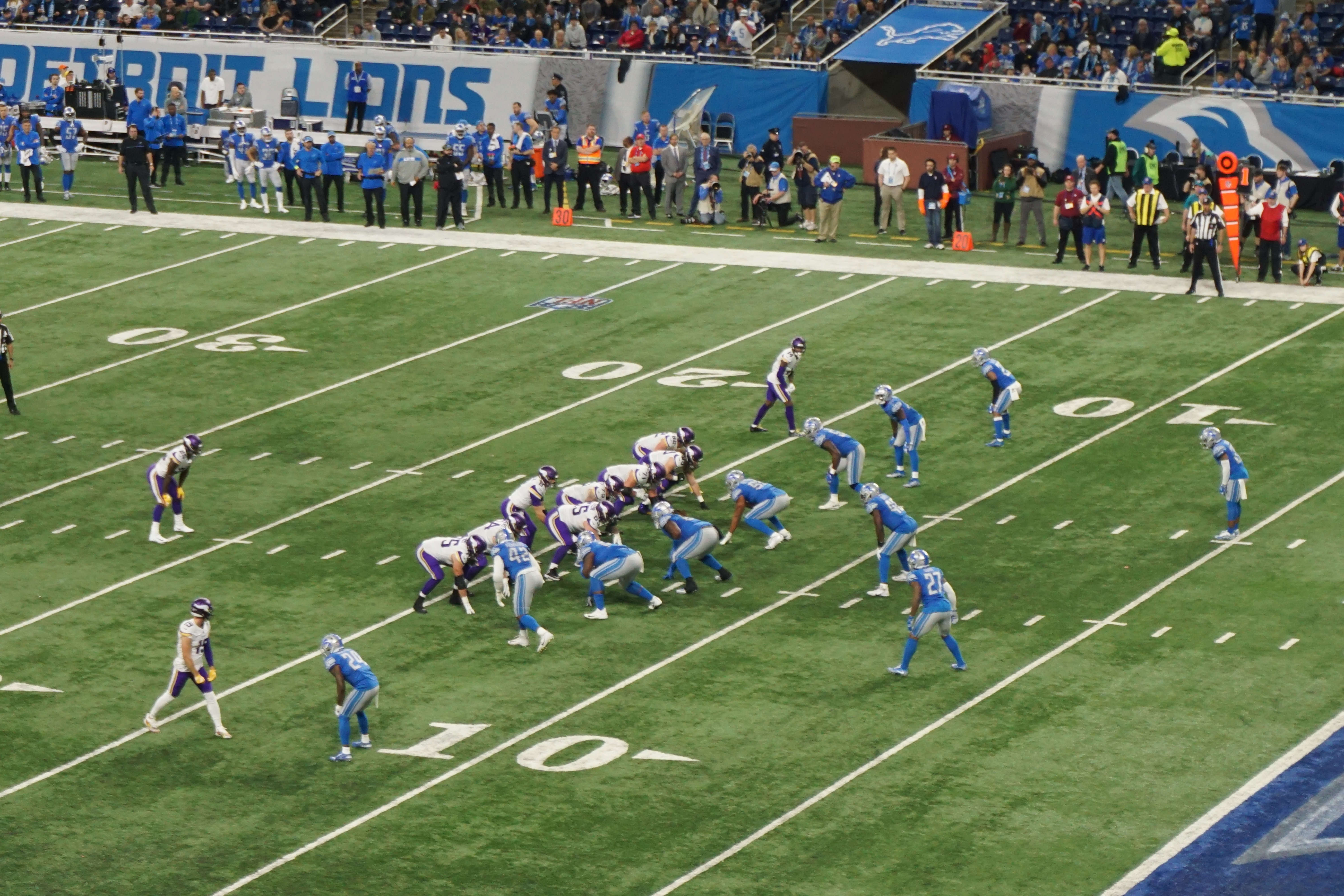 Minnesota on offense during the Minnesota Vikings vs. Detroit Lions game at Ford Field in Detroit, Michigan (United States). Minnesota won 27–9.